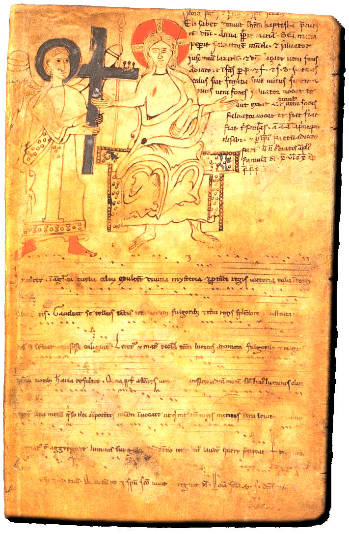 Codex Pray